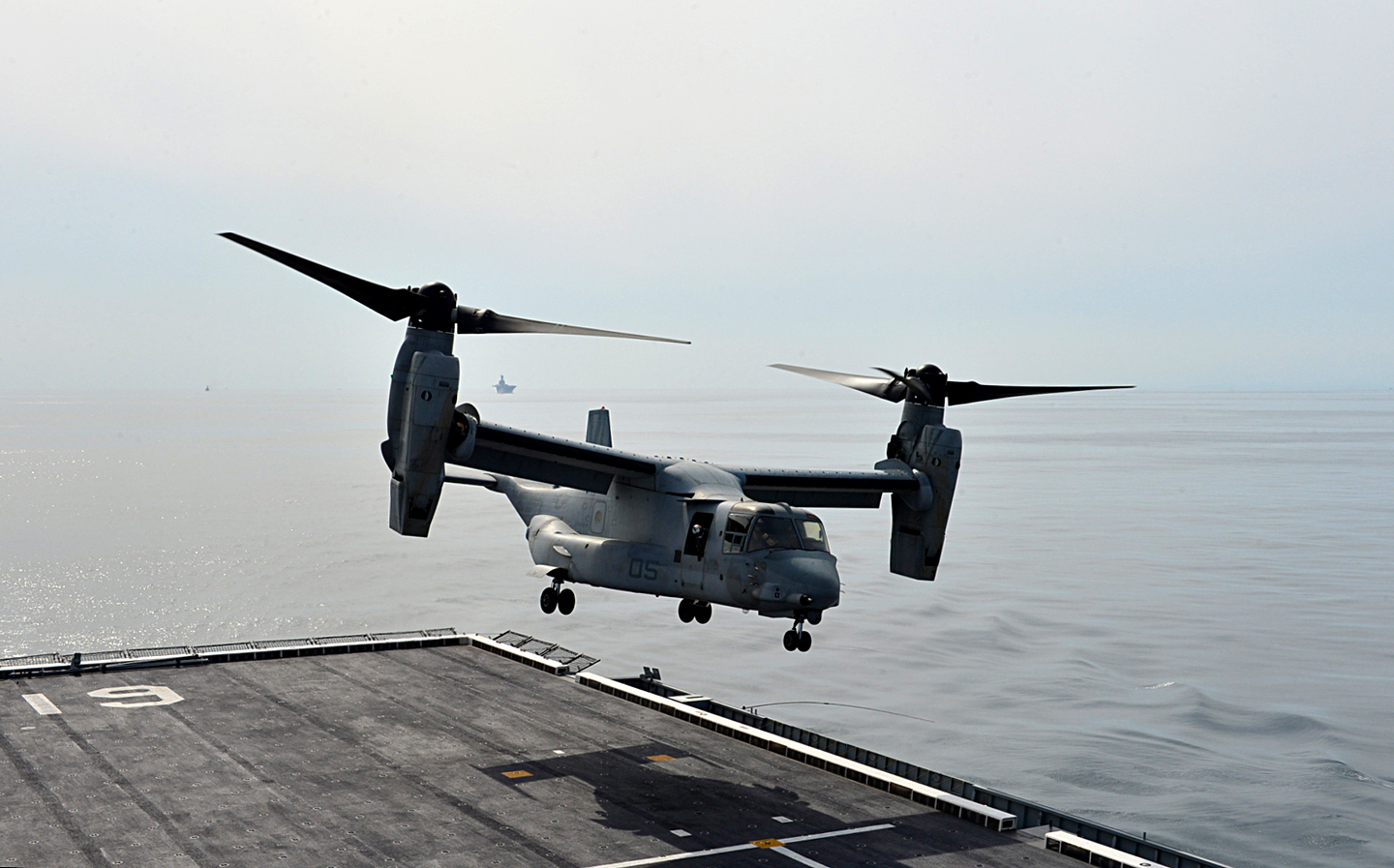 150326-N-ZZ999-001 WATERS TO THE SOUTH OF THE KOREAN PENINSULA, Republic of Korea – An MV-22 Osprey, from Marine Medium Tiltrotor Squadron 262, 31st Marine Expeditionary Unit, demonstrates its vertical takeoff and landing capabilities aboard the amphibious assault ship ROKS Dokdo during training to strengthen the interoperability between the Navy and Marine Corps of both the U.S. and Republic of Korea. The Marines of the 31st MEU are embarked aboard the forward-deployed amphibious assault ship USS Bonhomme Richard and currently conducting a regularly-scheduled patrol of the Asia-Pacific region.